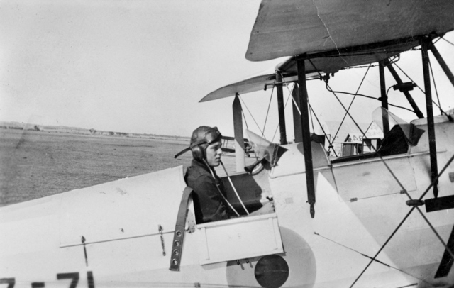 290745 Francis Norman (Frank) Meyer as pilot of a De Havilland DH60M Metal Moth training aircraft, serial number A7-71, during elementary flying training at 1 Elementary Flying Training School (1 EFTS), Parafield, SA. He was executed by the Japanese on 6-8 February 1942 following the invasion of Ambon.